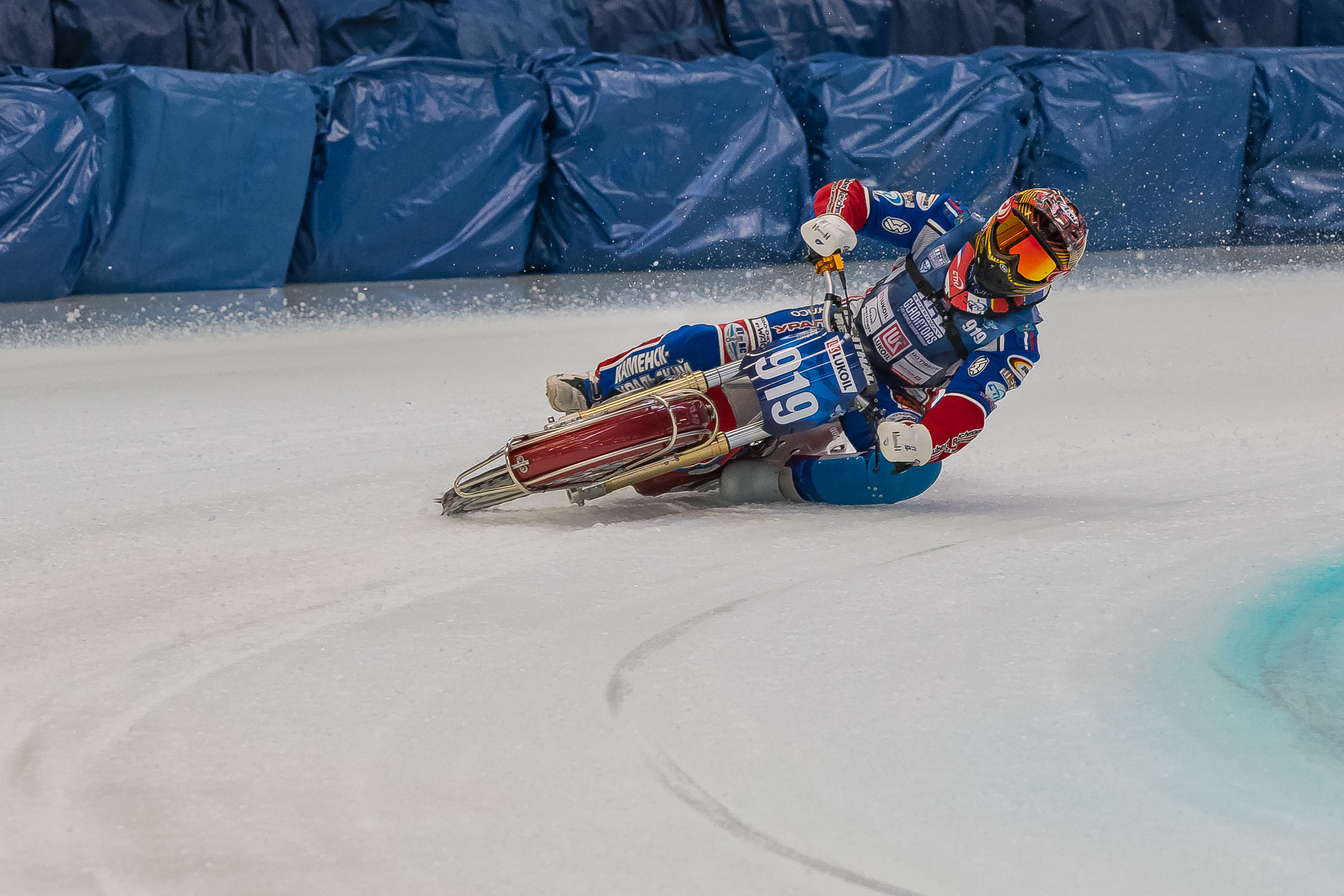 2018 FIM Ice Speedway Gladiators World Championship Final 4 - Inzell, Germany; Practice on March 16, 2018; Dimitry KHOMITSEVICH